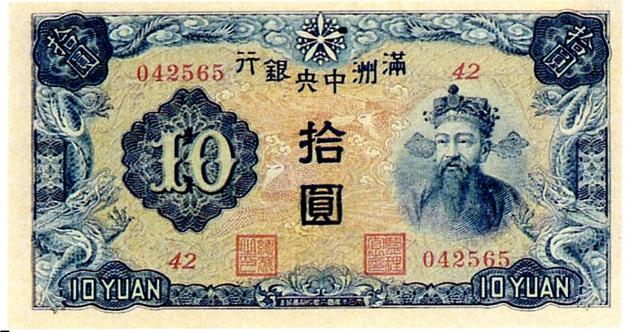 Manchukuo 10-yean banknote